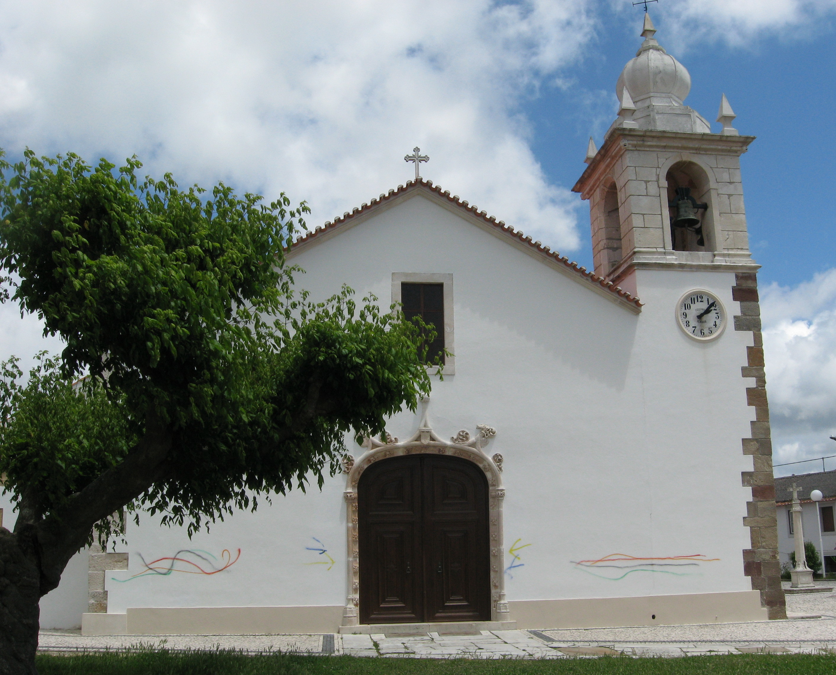 Alcobaça, Portugal, Mosteiro, Coutos de Alcobaça, former county of the Mosteiro, one of the old 13 cities of the Coutos: Évora de Alcobaça, Church of San Tiago, 16th century, former building of the 13th century